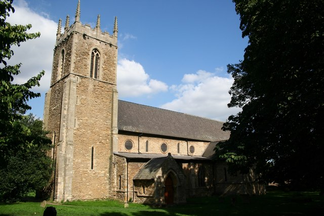 Nave and west tower of St Peter ad Vincula parish church, Bottesford, North Lincolnshire, seen from the southwest